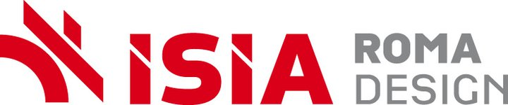 ISIA Roma Design LOGO